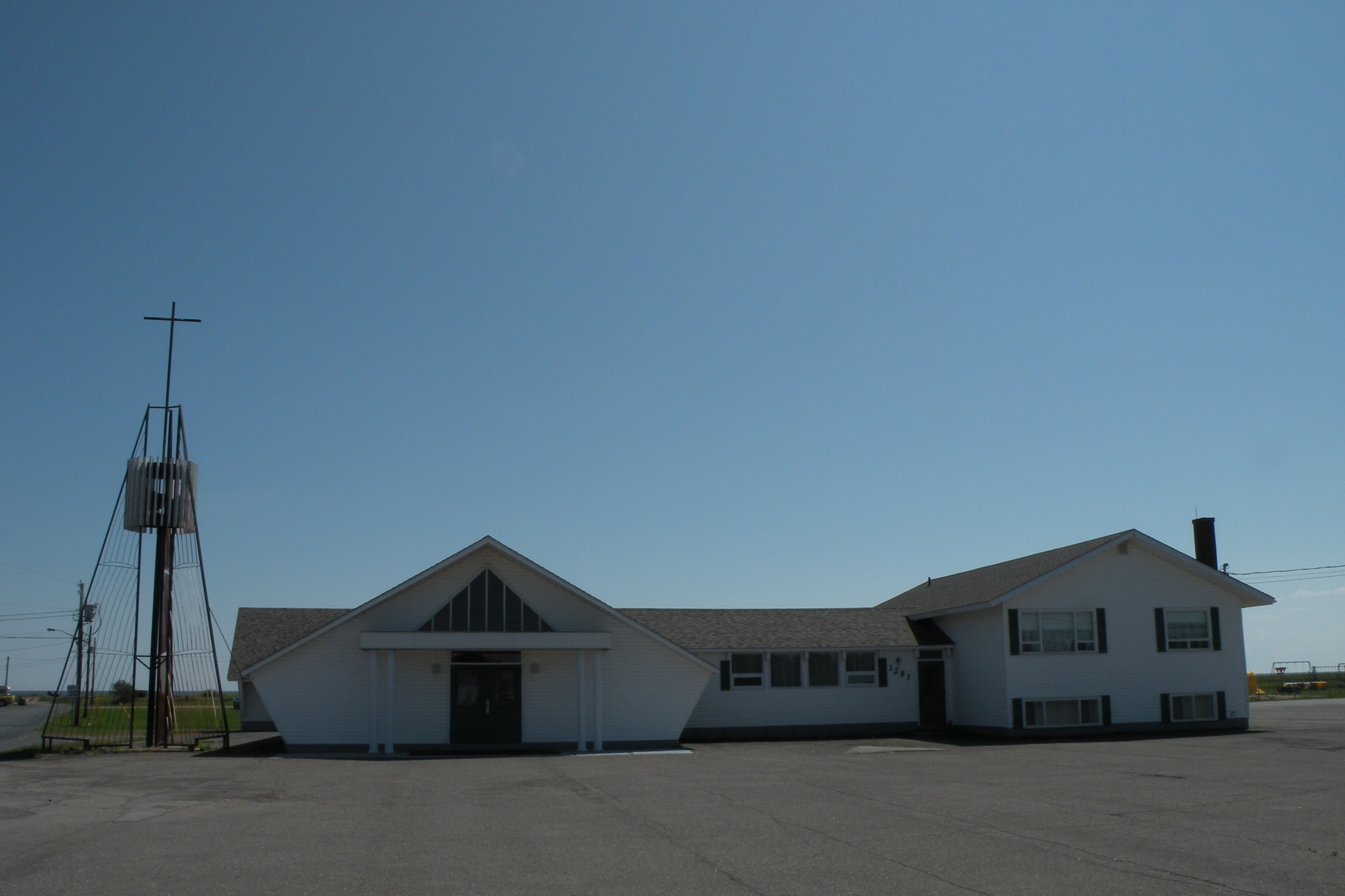 Marie-Médiatrice roman catholic church in Le Goulet, New Brunswick, Canada.